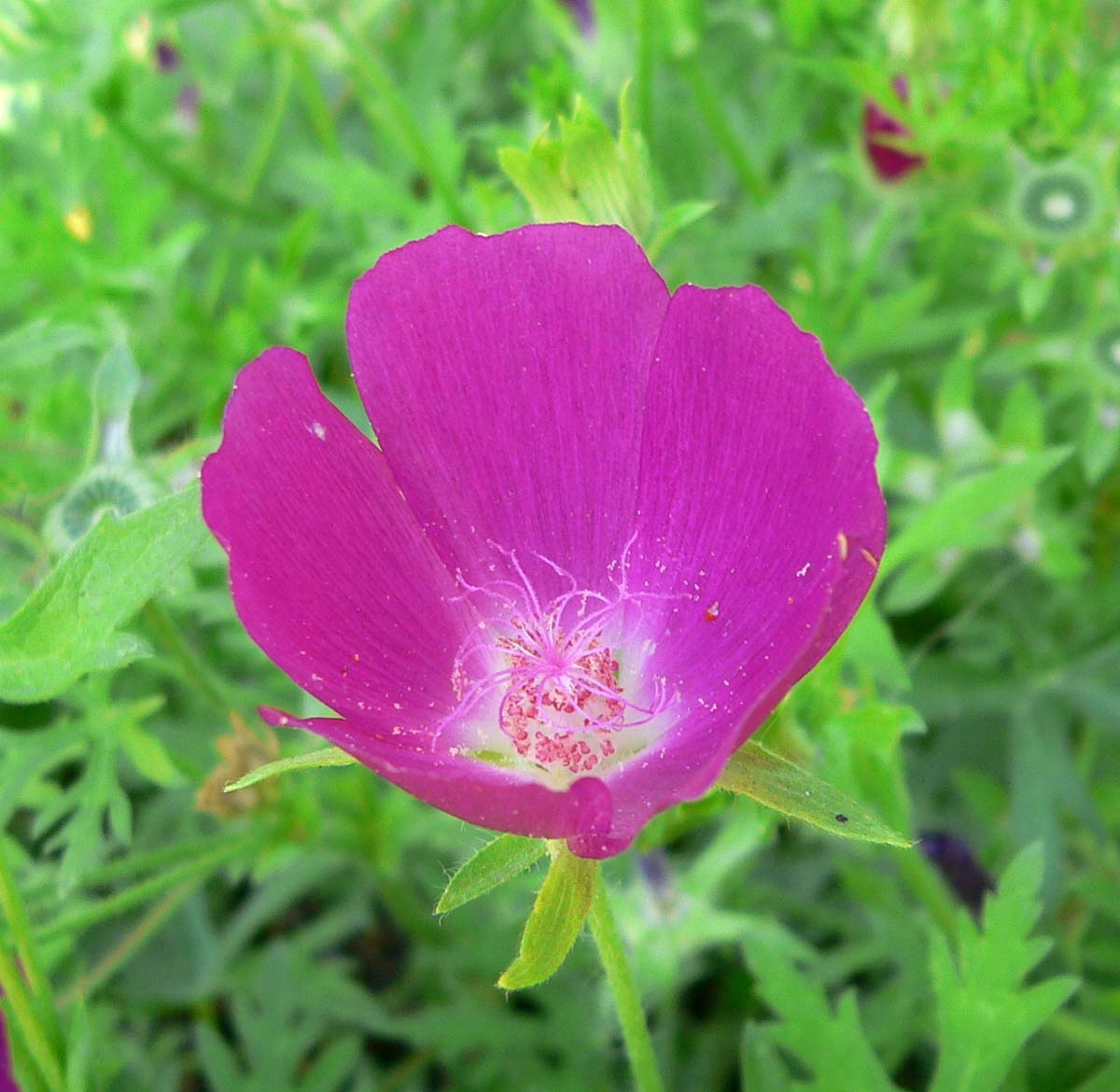 Photo of Callirhoe involucrata at the Springs Preserve garden in Las Vegas, Nevada